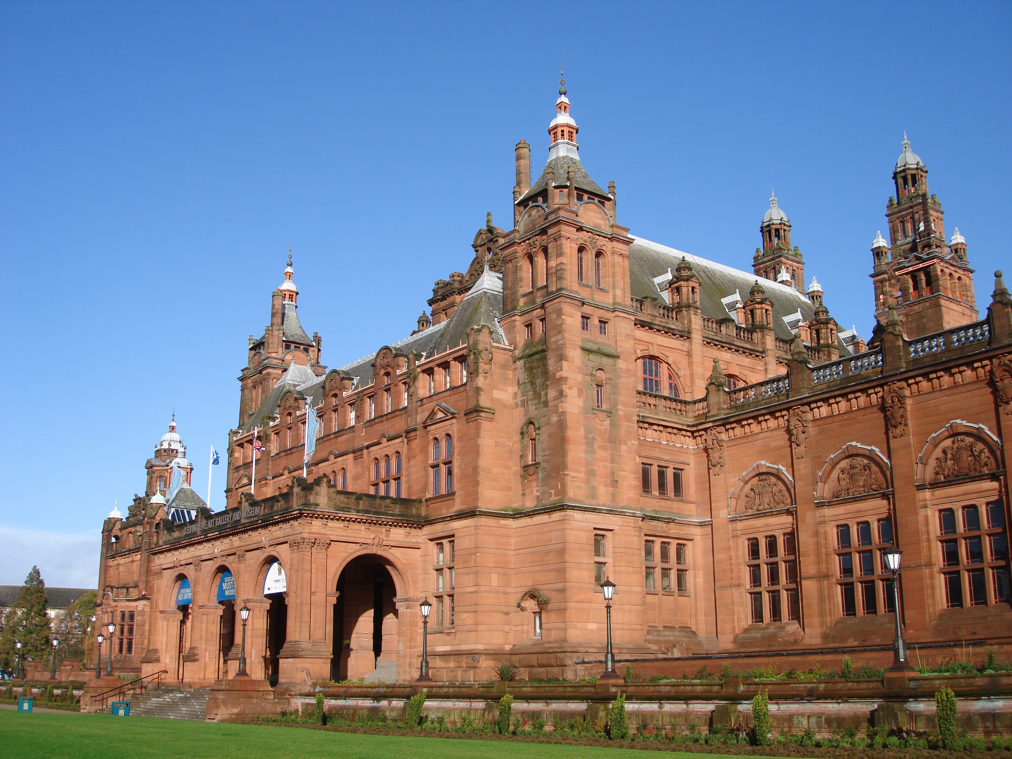 Side View of the Kelvingrove Art Museum